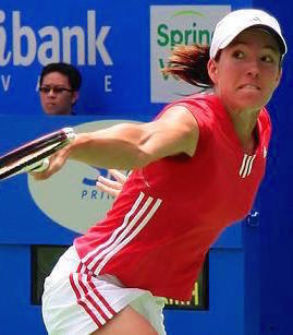 Justine Henin-Hardenne at the 2006 Medibank International, 12 January 2006